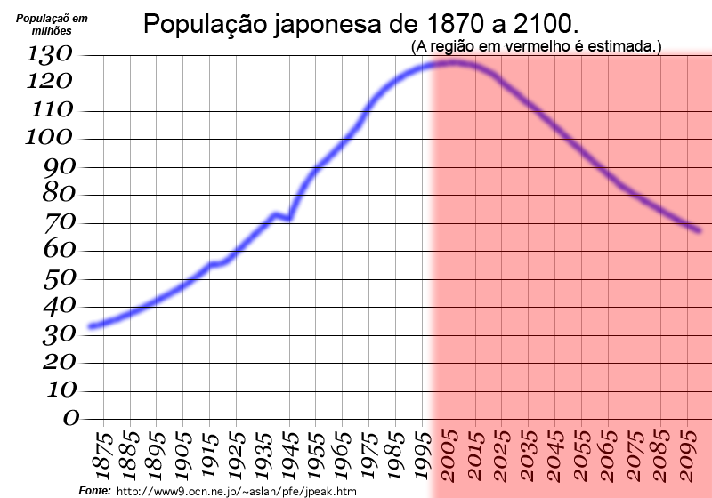 A new version of the image translated to portuguese.